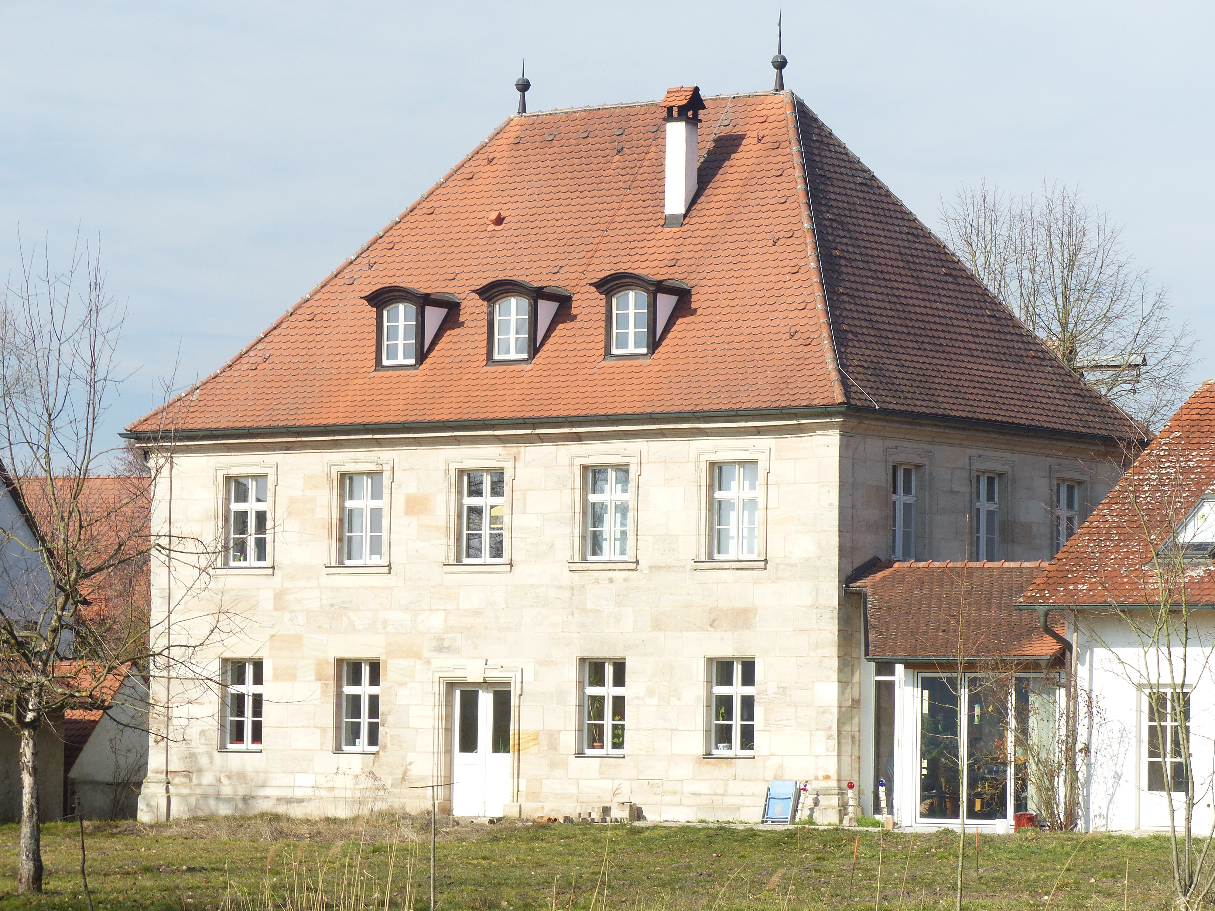 The former manor house Scheerau. Situated in the hamlet Scheerau, a part of the municipality of Leinburg